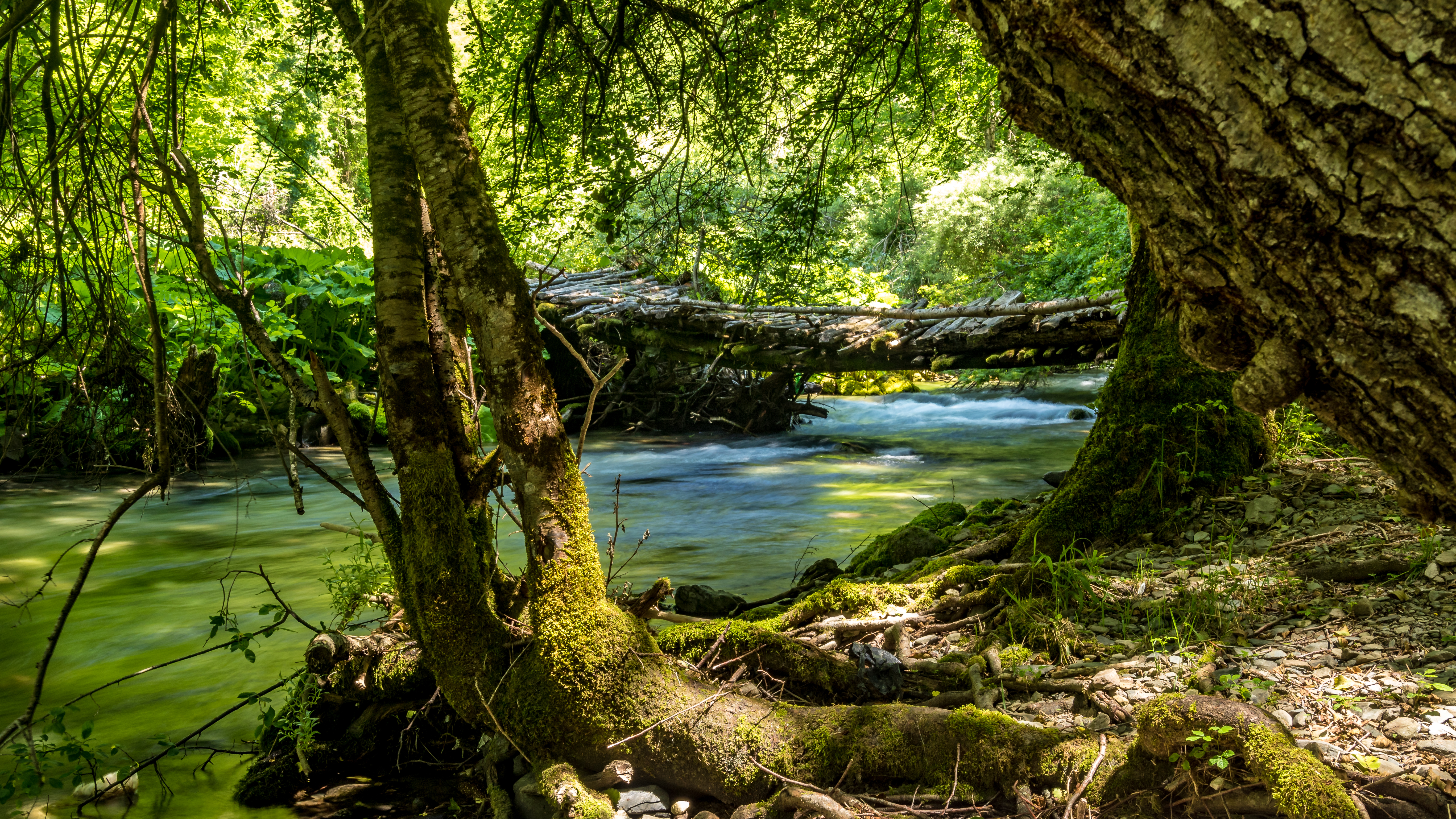 View of the river Mala Reka